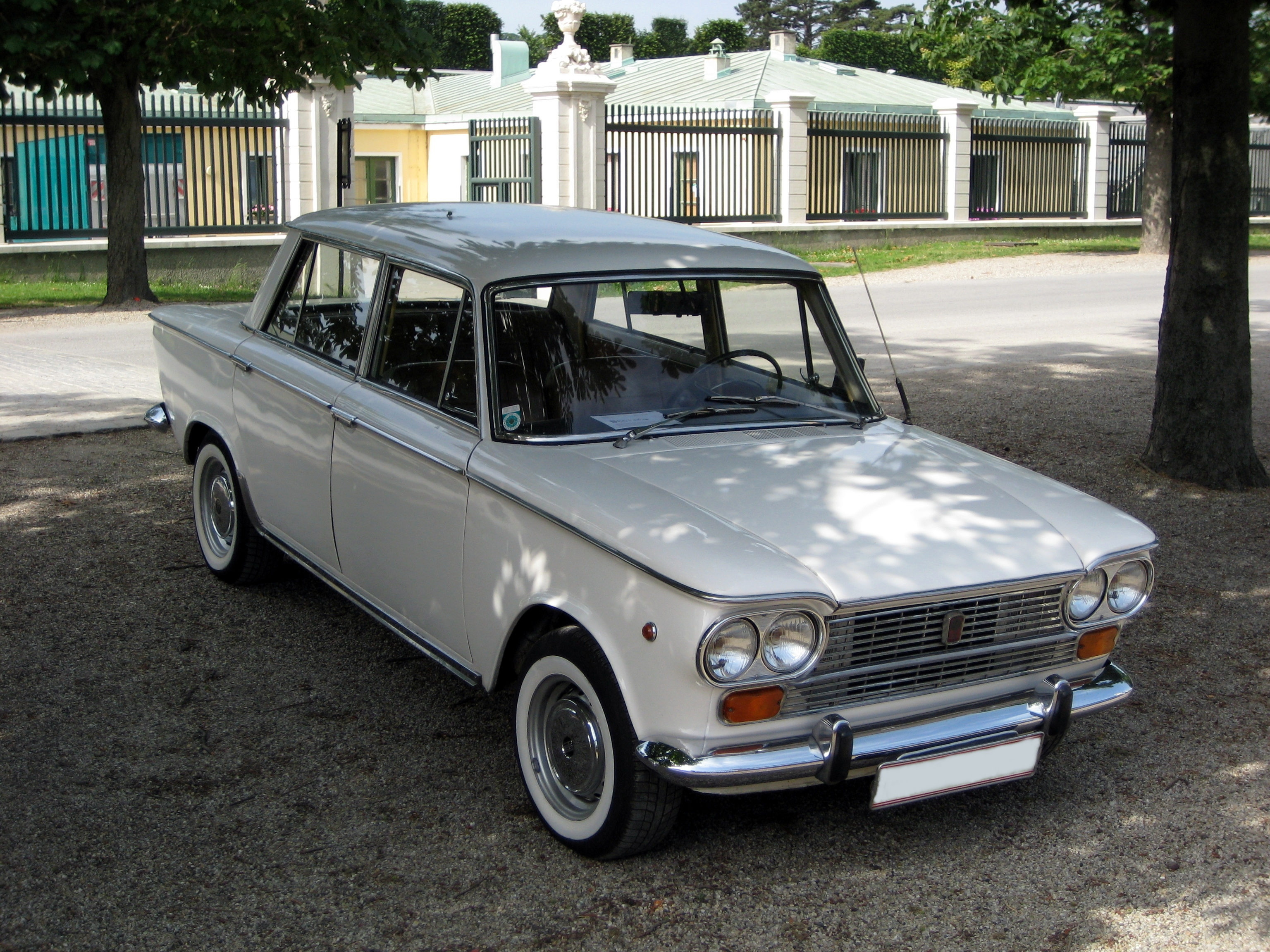 Fiat 1500